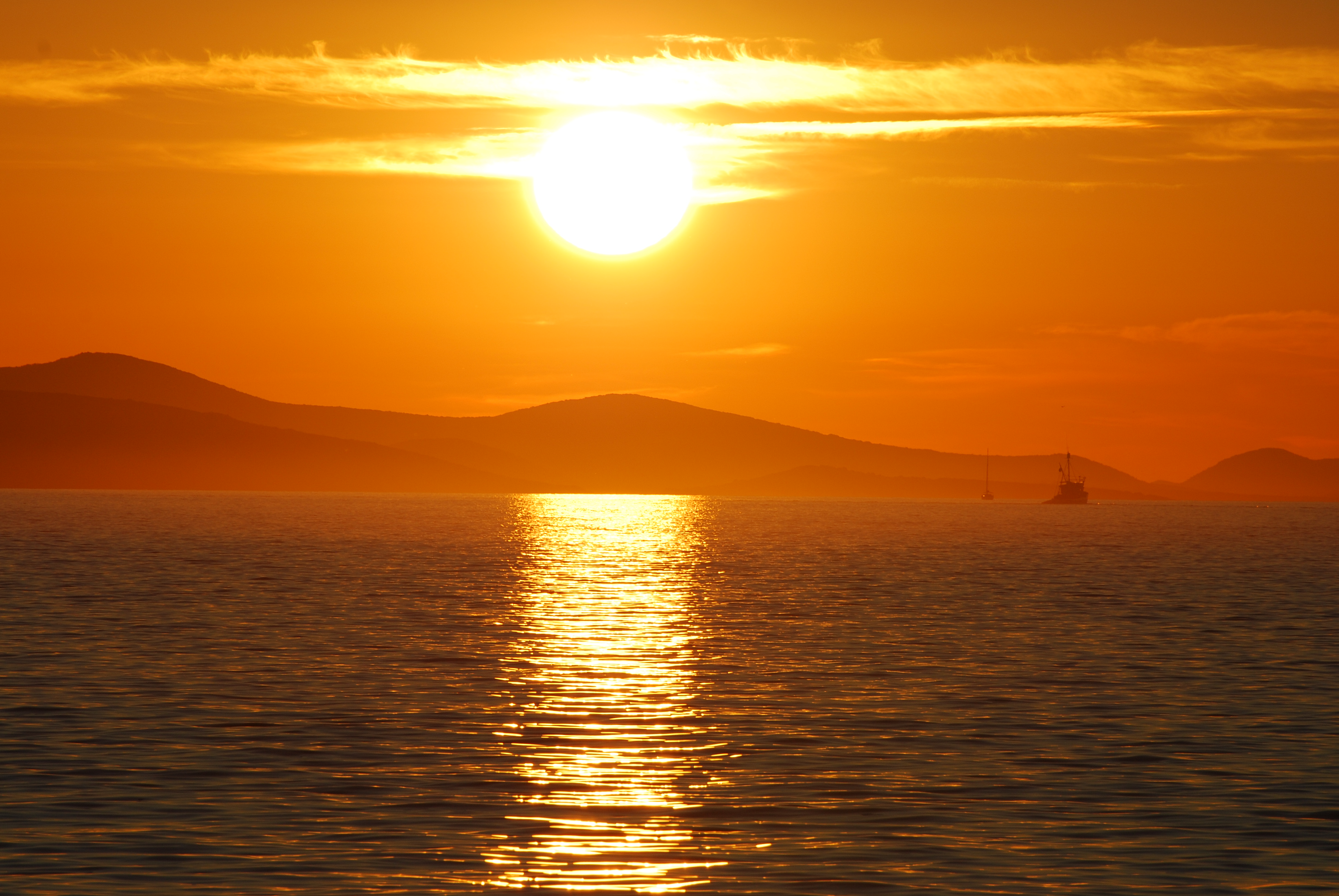 Sunset in Zadar at Zadarski kanal in Croatia / Adriatic Sea.